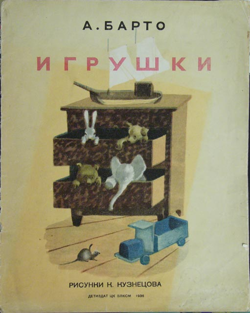 book cover of Toys (Игрушки) by Soviet poet and chidren's writer Agniya Barto